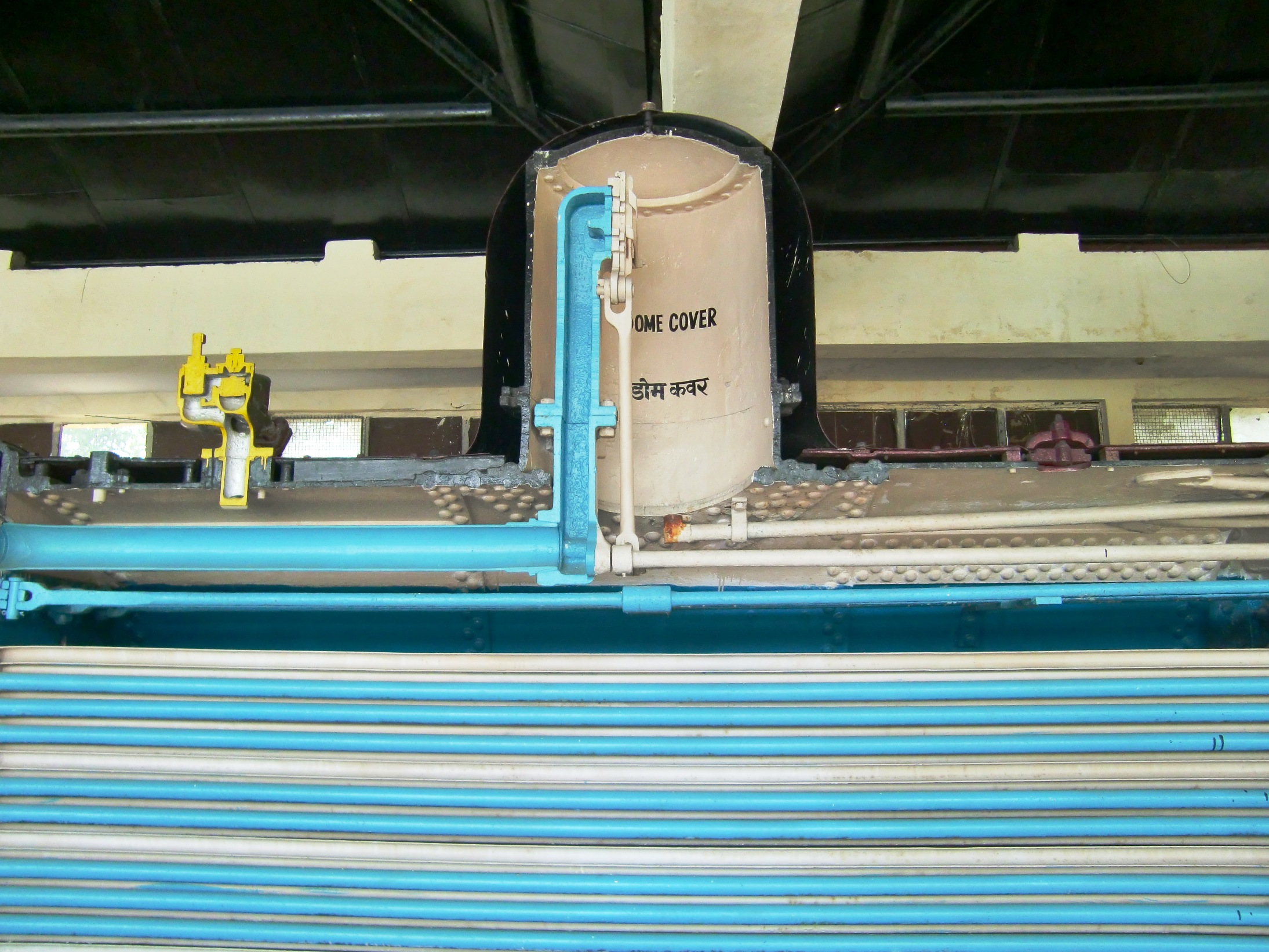 A48 Steam dome & regulator valve , National Railway Museum(India)